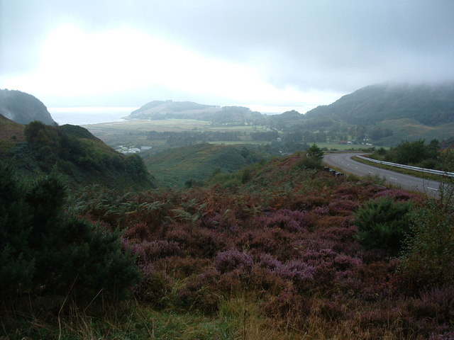 Heather, hills, clouds, on the road to Auchtertyre